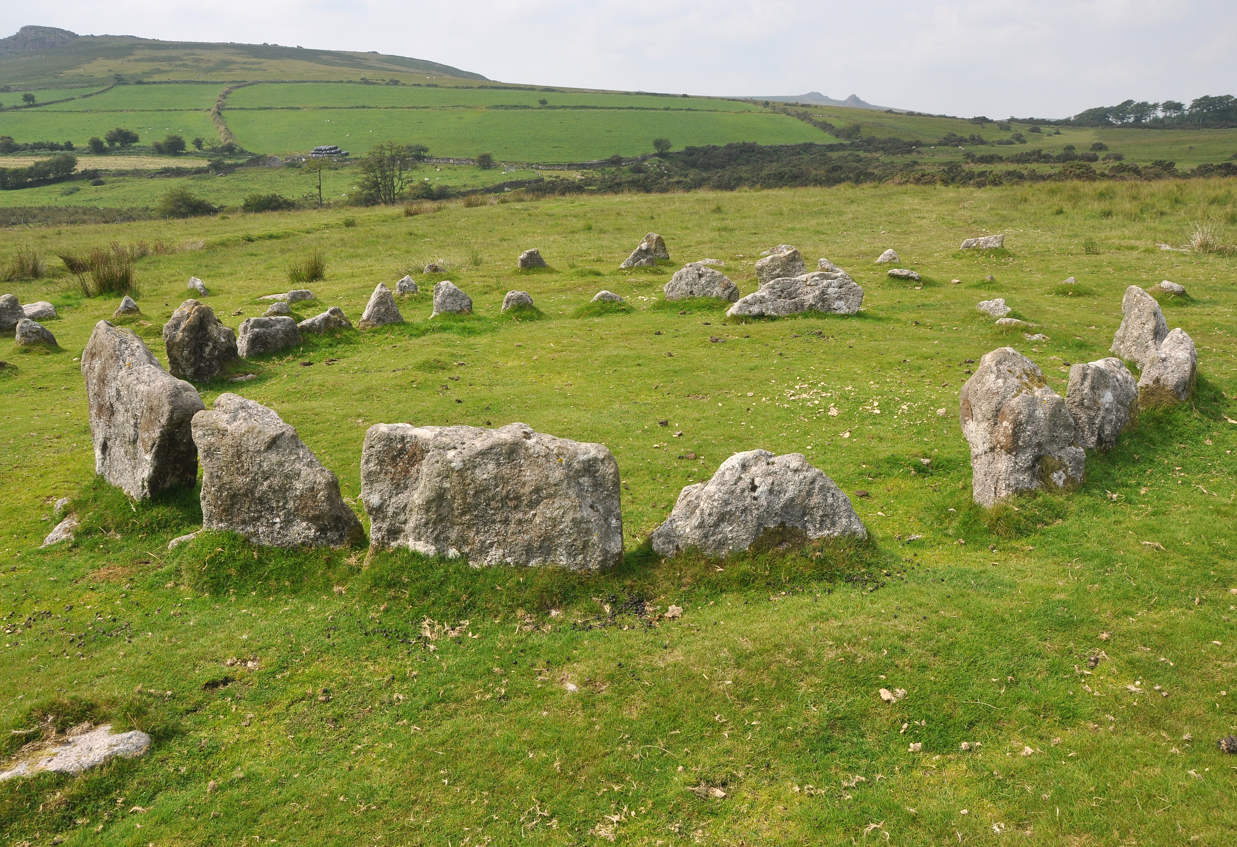 The innermost of the concentric stone circles on Yellowmead Down, near Sheepstor, on Dartmoor.